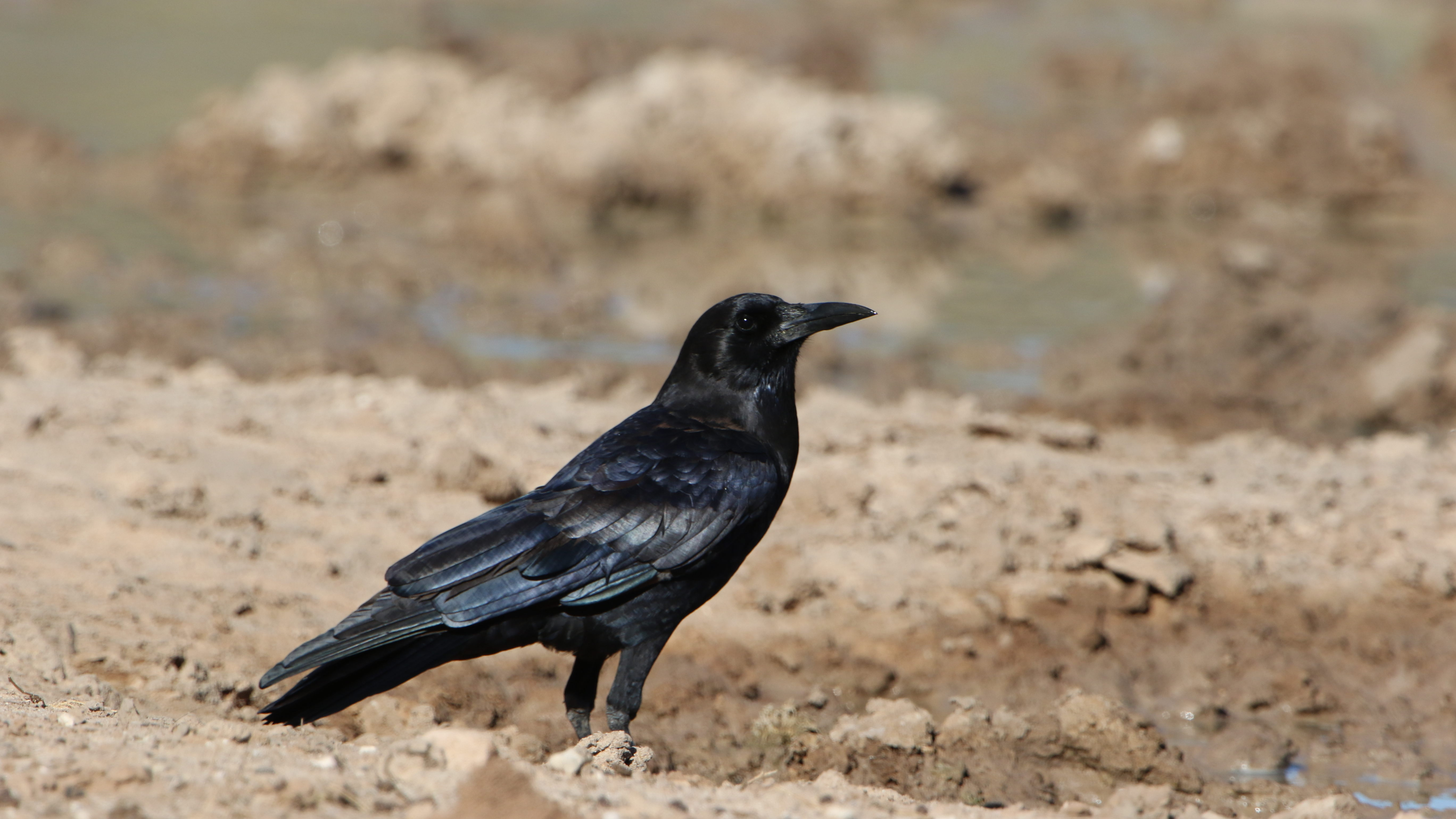 Cape crow, Corvus capensis, at Kgalagadi Transfrontier Park, Northern Cape, South Africa